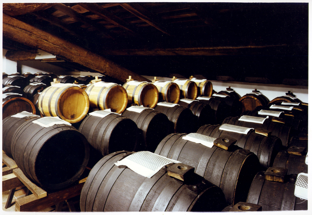 ACETAIA DEL CRISTO Paradiso Attic